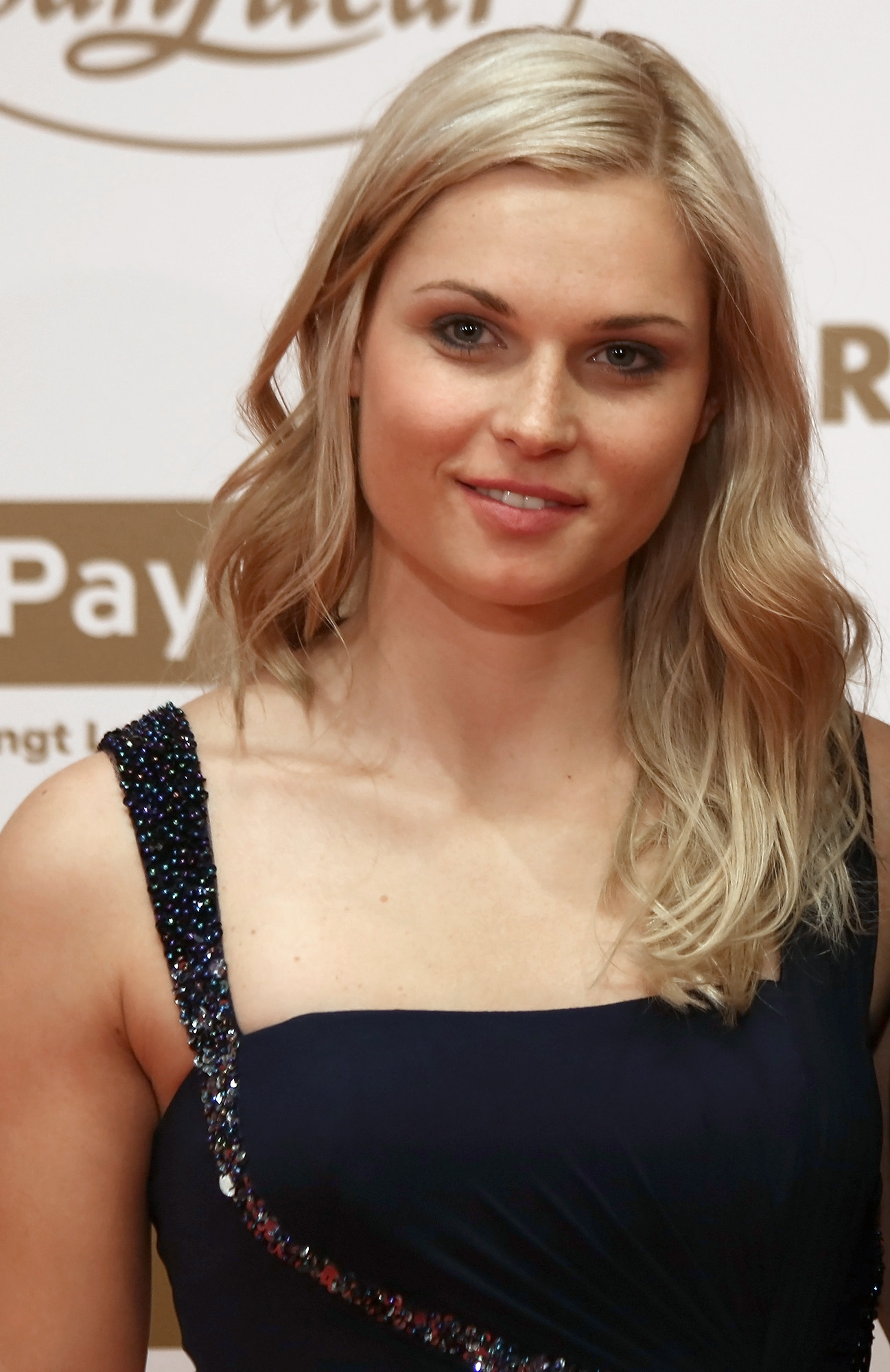 Anna Fenninger: Female Sportsperson of the Year at the award show for the Austrian Austrian Sportspersonalities of the year 2013 (Austria Center Vienna).